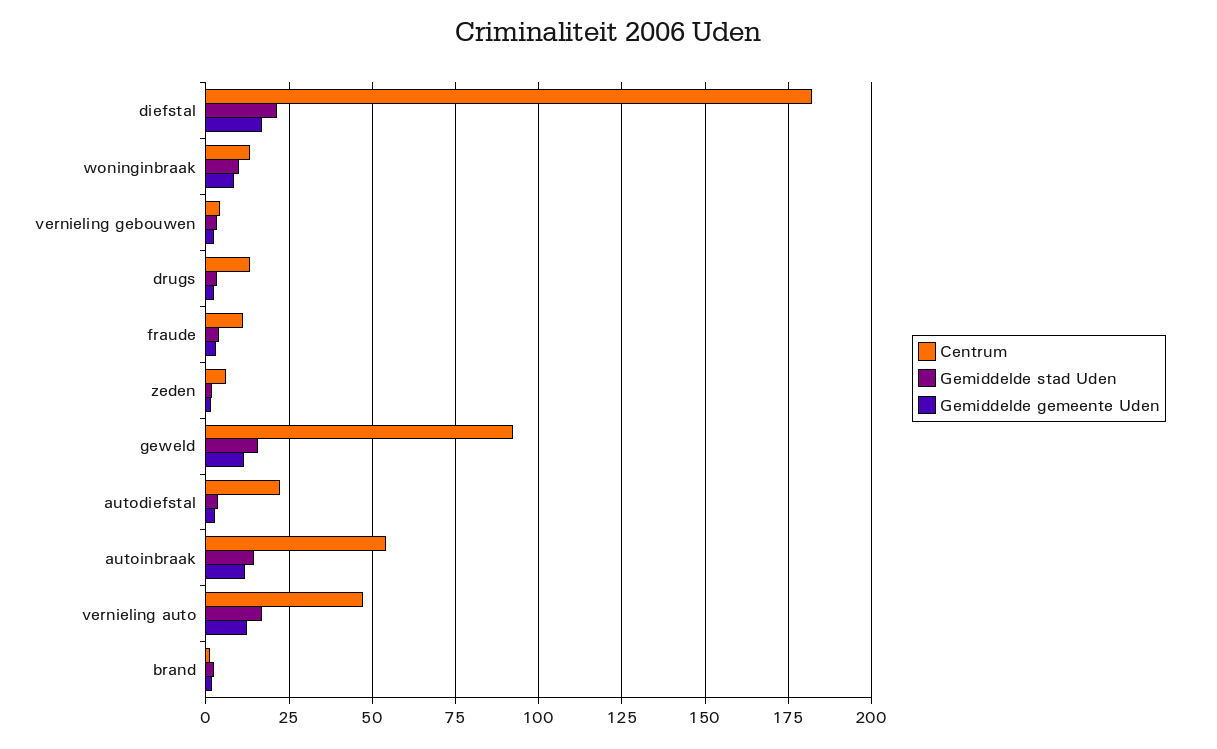 Criminaliteitcijfers in Uden Centrum (2006), Noord-Brabant, The Netherlands